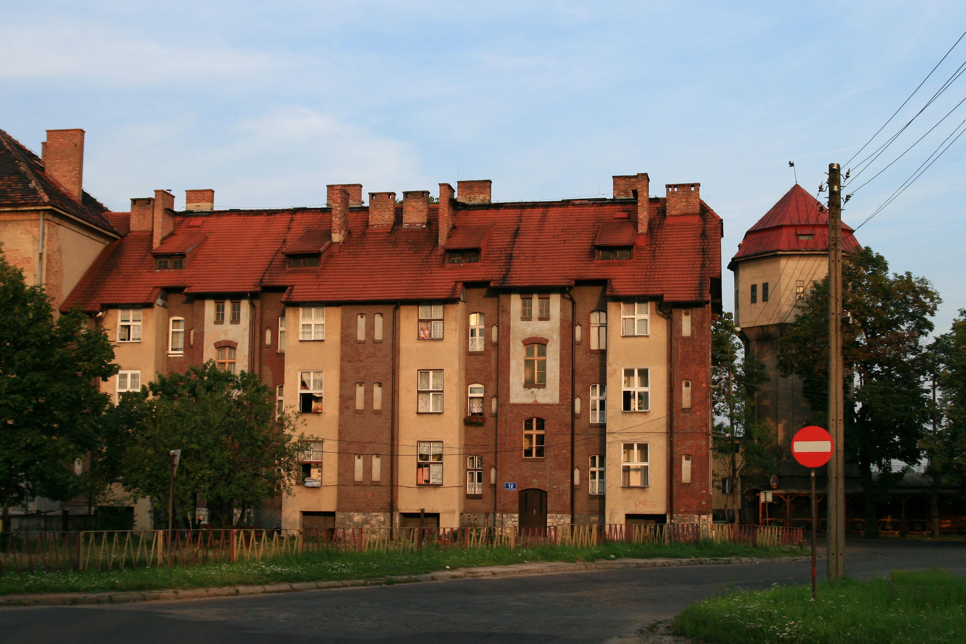 Częstochowska Street in Tarnowskie Góry (Poland).